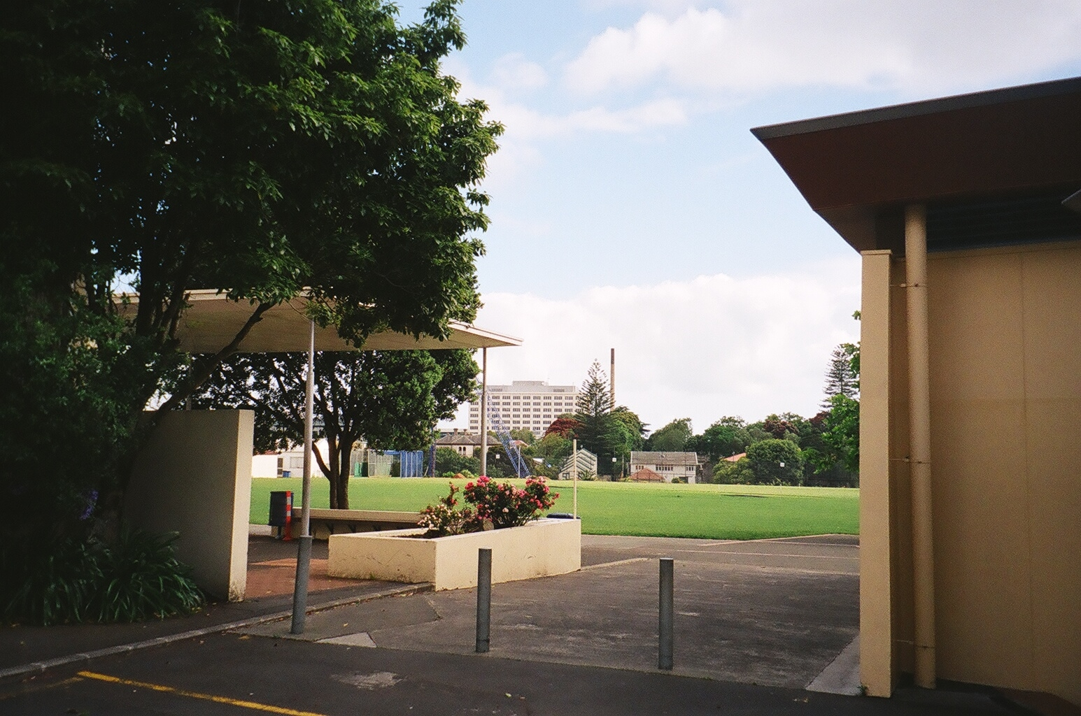 St Peter's College cricket field and Outhwaite Park in the far distance (Khyber Pass Road and the rail line in the gully in between).